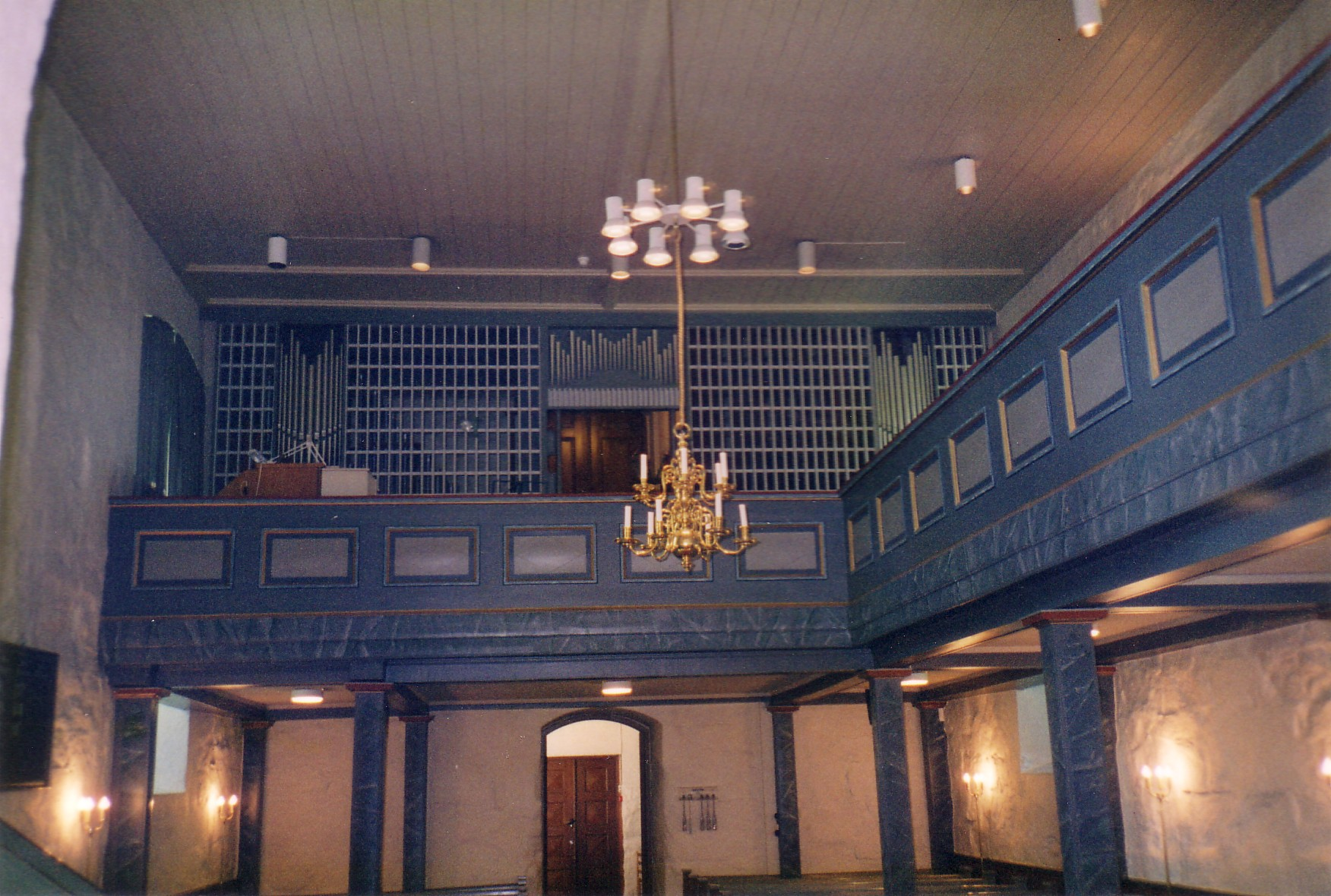 The organ of the Old Church in Ski, South Norway.